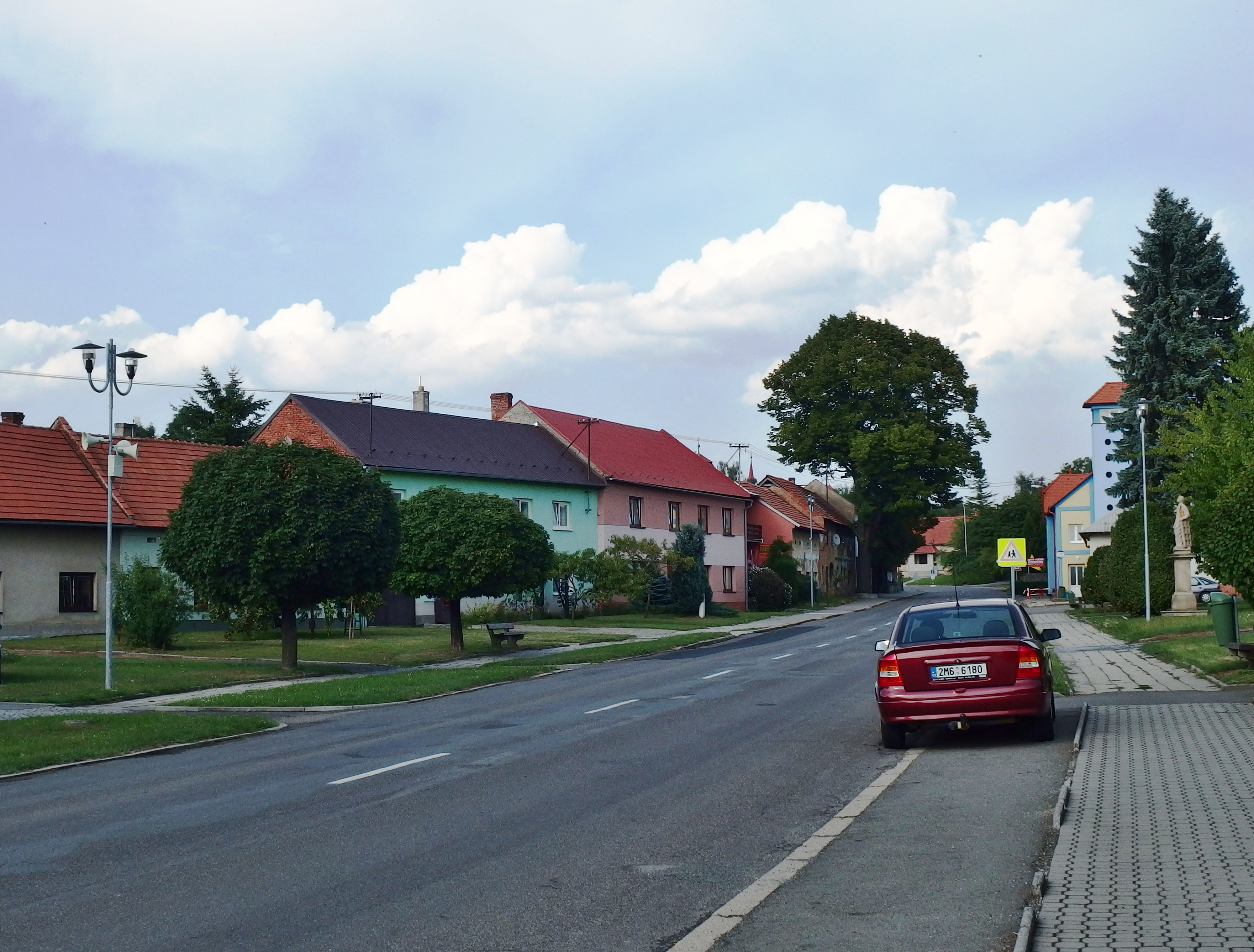 Loukov, Kroměříž District, Czech Republic.